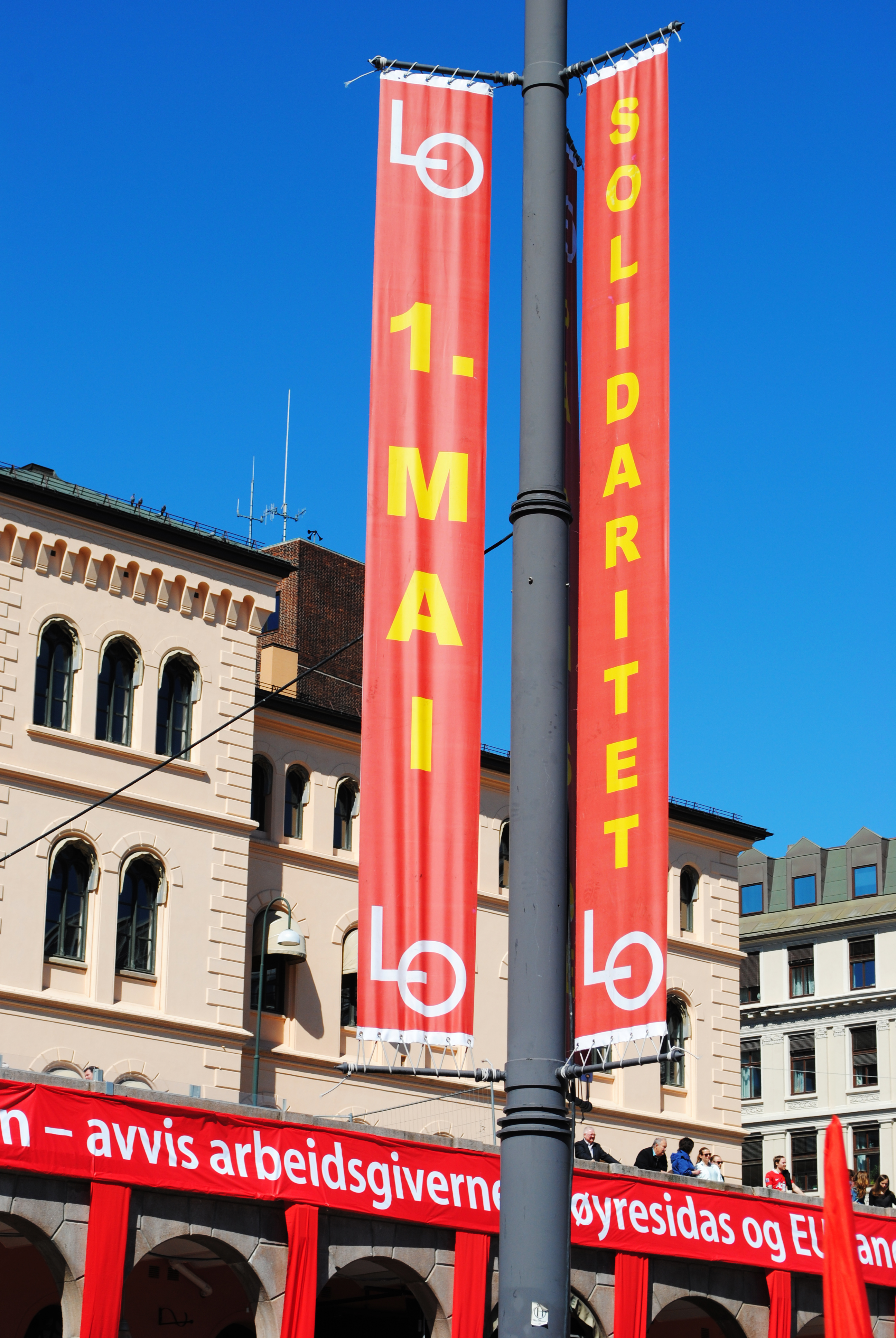 Trade union banners during a 1st of May-rally in Oslo in 2012.